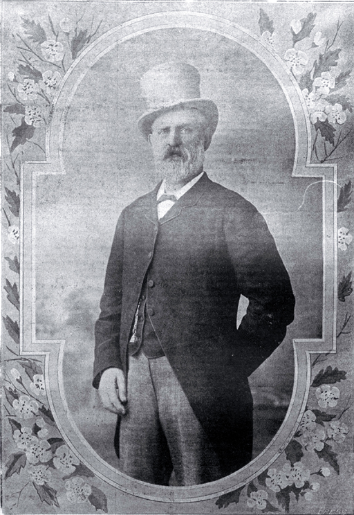 William Francis Warner (1836-1896). In 1863 John Etherden Coker (1832-1894) opened The Commercial and Dining Rooms in Cathedral Square. Warner was the third owner of this hotel. He took over the business in 1874 and from 1875 it was known as Warner's Hotel. Warner was known as a man with a very jovial demeanour with an extensive stock of yarns. He was accidentally drowned in the sea near New Brighton in 1896